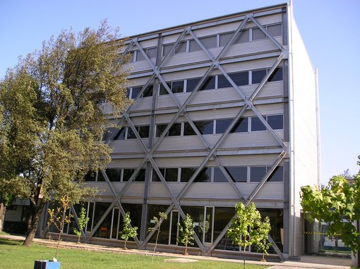 Laboratorios de Física - USACH